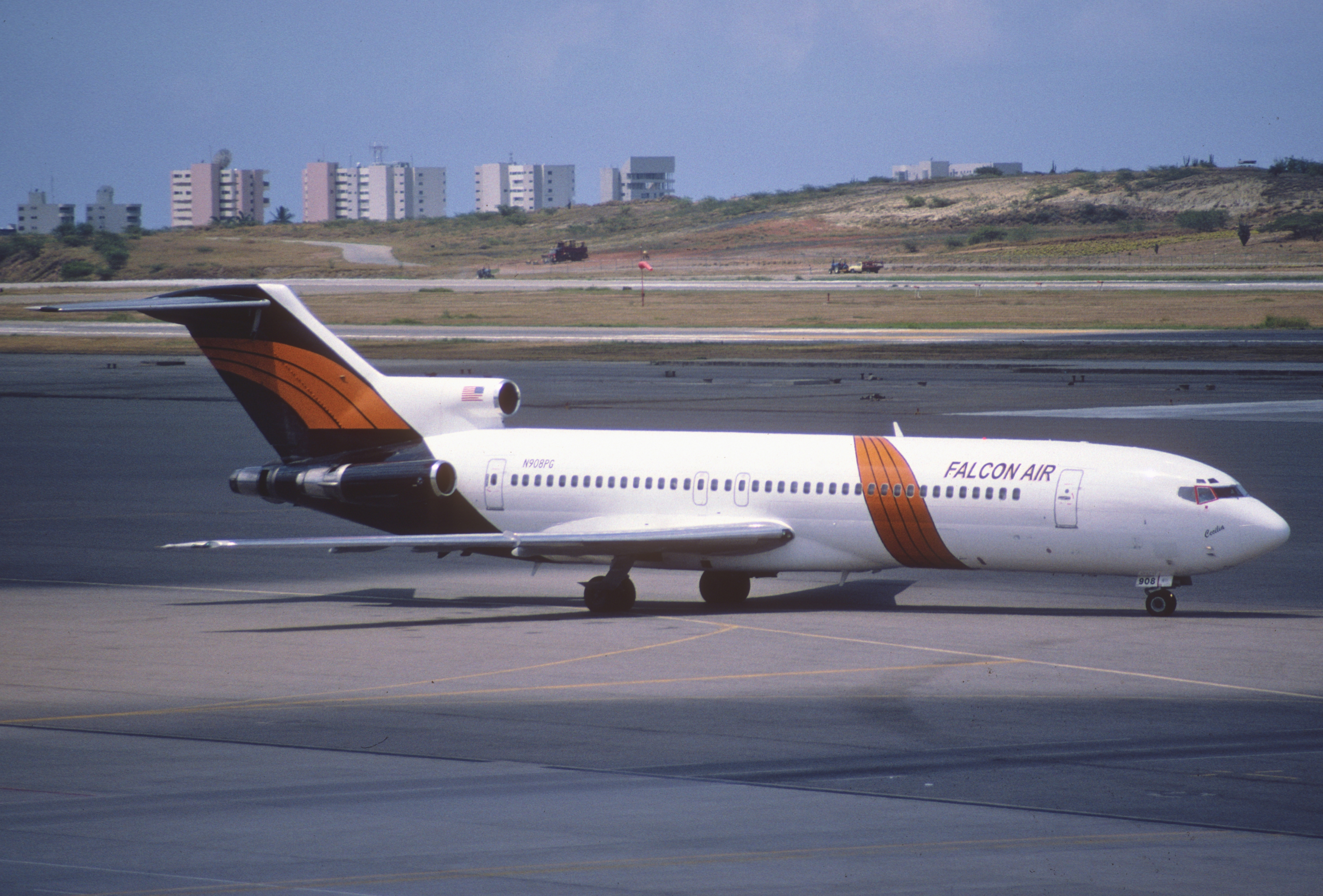 155ap - Falcon Air Express Boeing 727-276; N908PG@CCS;19.10.2001